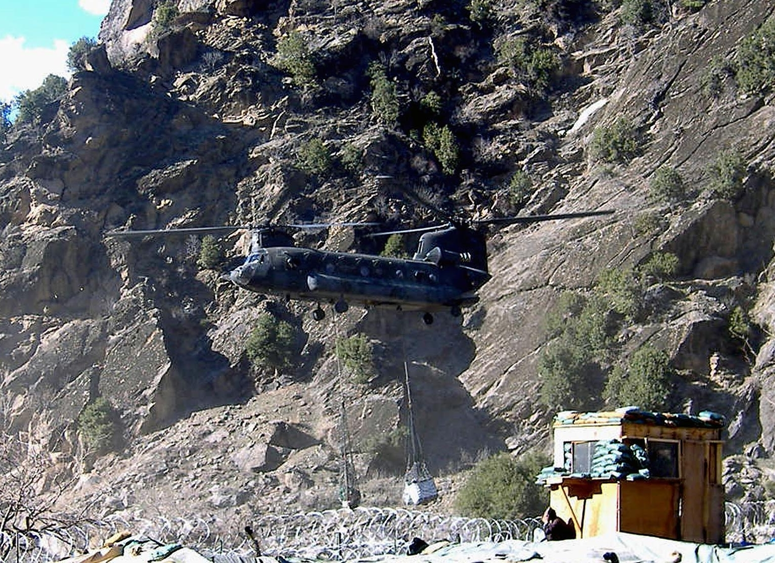 Chinook helicopter above Combat Outpost Keating, Nuristan, Afghanistan Original caption: " A Chinook helicopter lands at Combat Outpost Keating, Afghanistan, in this March 2007, file photo. A military investigation of a Taliban attack last fall on the remote U.S. army outpost that left eight American soldiers dead and 22 wounded has resulted in administrative punishments for two commanders blamed for "inadequate measures taken by the chain of command." (Sgt. Amber Robinson/U.S. Army)